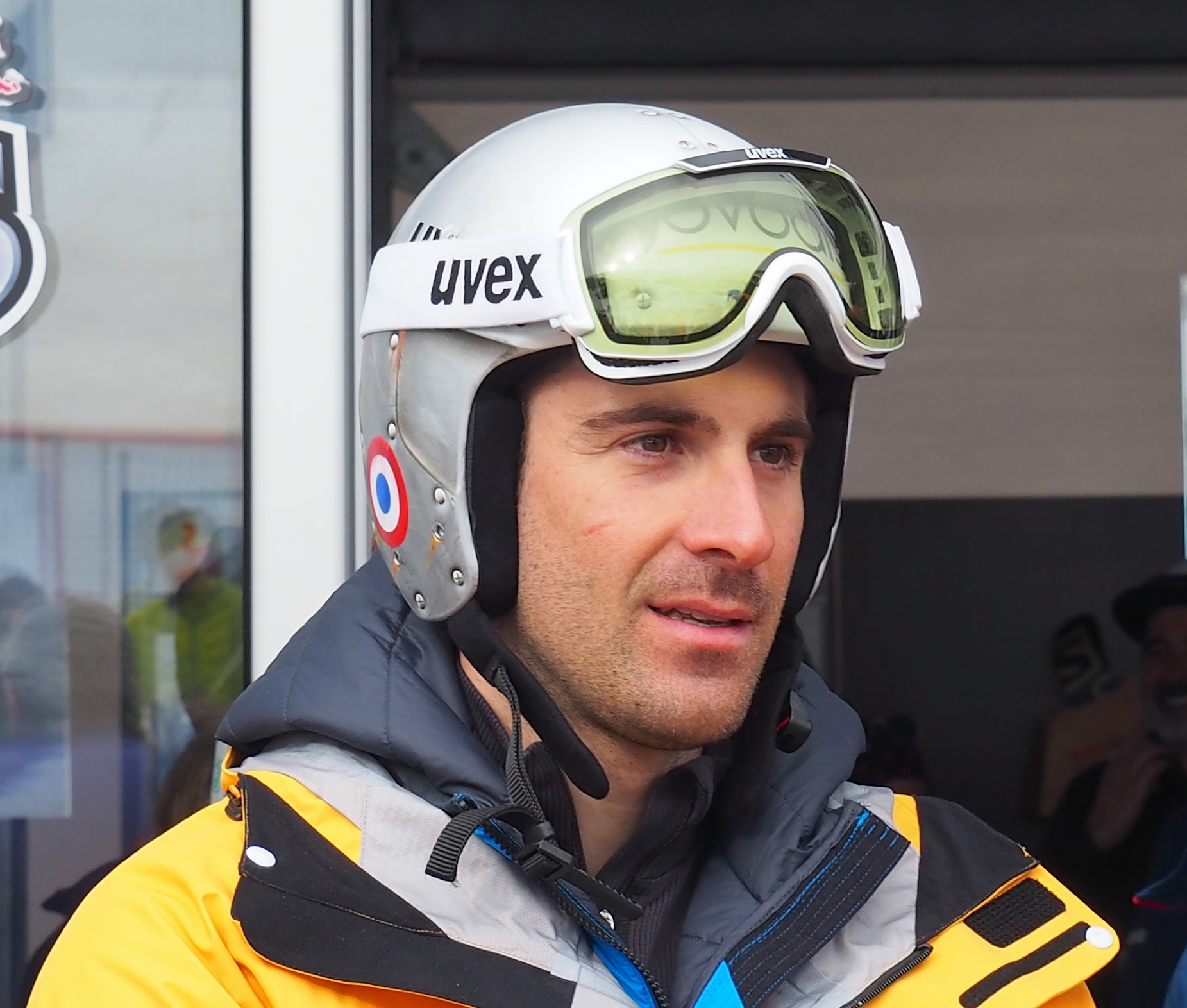 Adrien Théaux, alpine skier from France